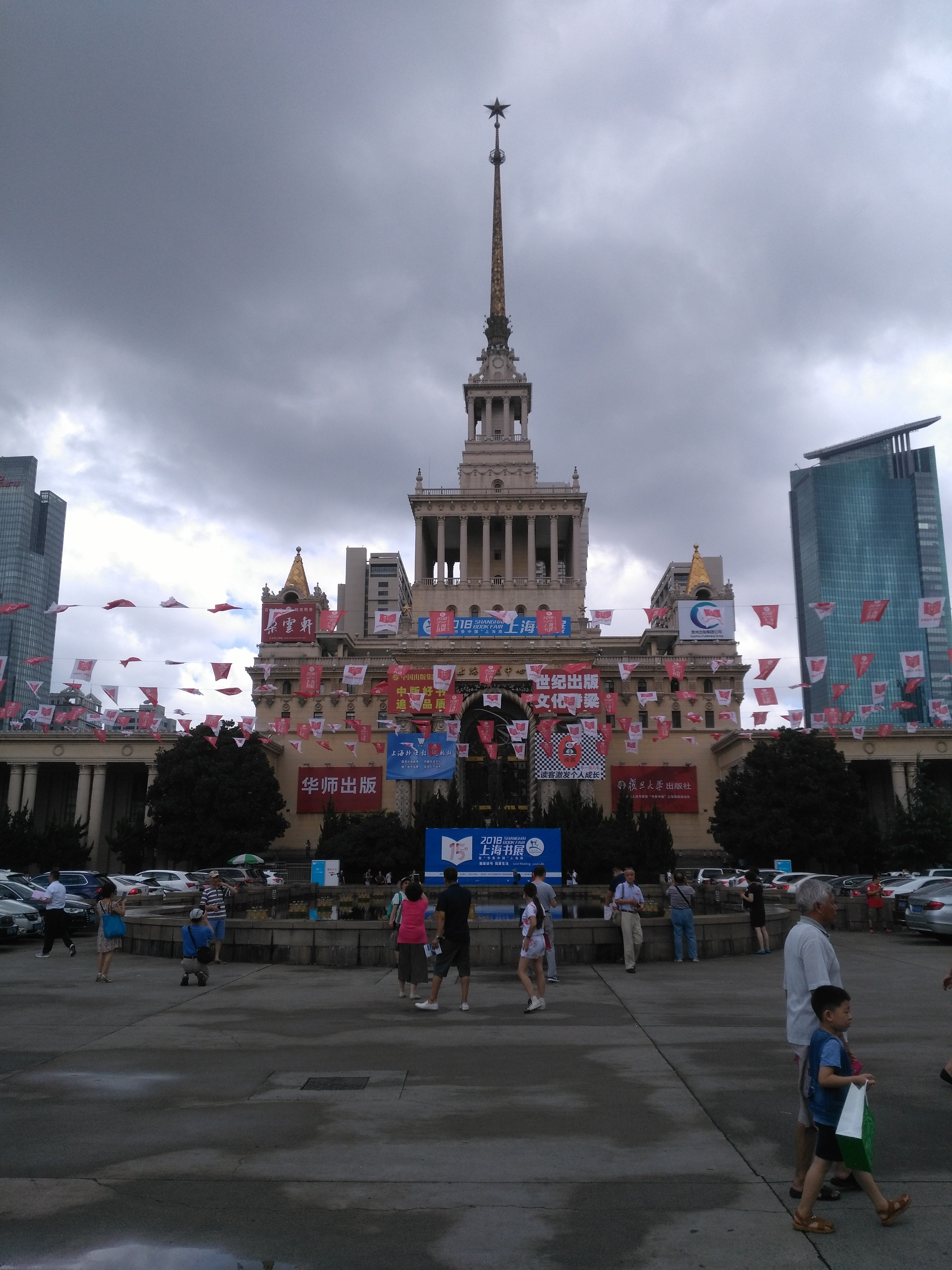 2018 Shanghai Bookfair